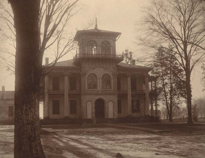 Dr. John H. Drish House in Tuscaloosa, Alabama in 1911, while being used to house the Jemison School.